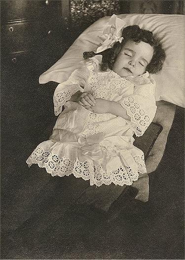 Girl with curls and a large bow in her hair, laying at rest on a bed as if asleep.